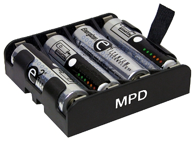 Energizer AA Batteries in holder.